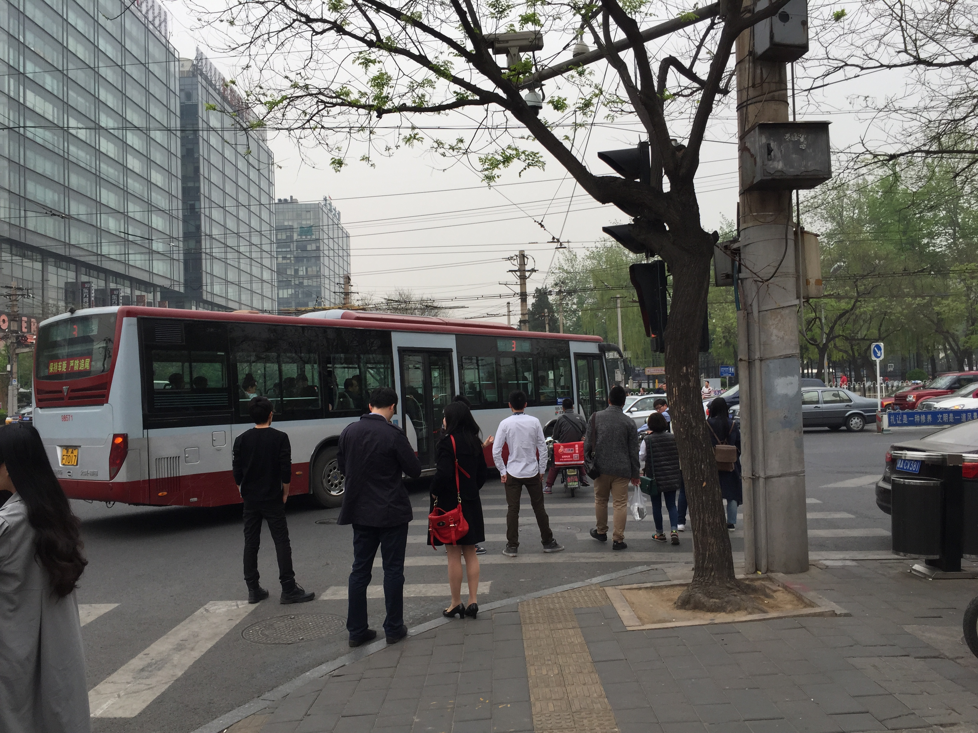 3 to Beijing West, during our Earth Day activity.